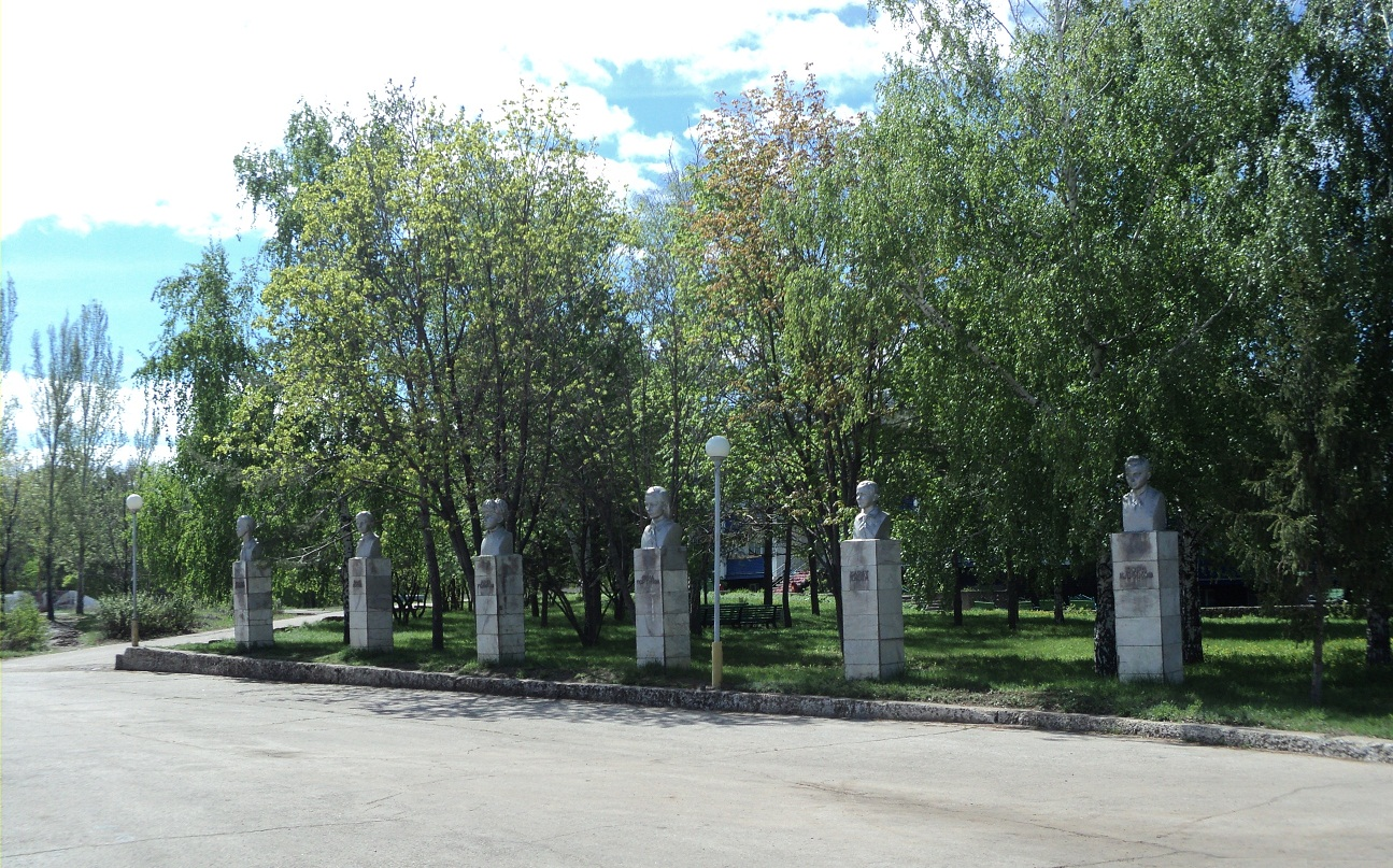 Monument to the Pioneers of the heroes of the great patriotic war, the successor to clandestine guerrilla units. Located on the territory of the former Young Pioneer Camp "Alye Parusa", not far from city Togliatti.